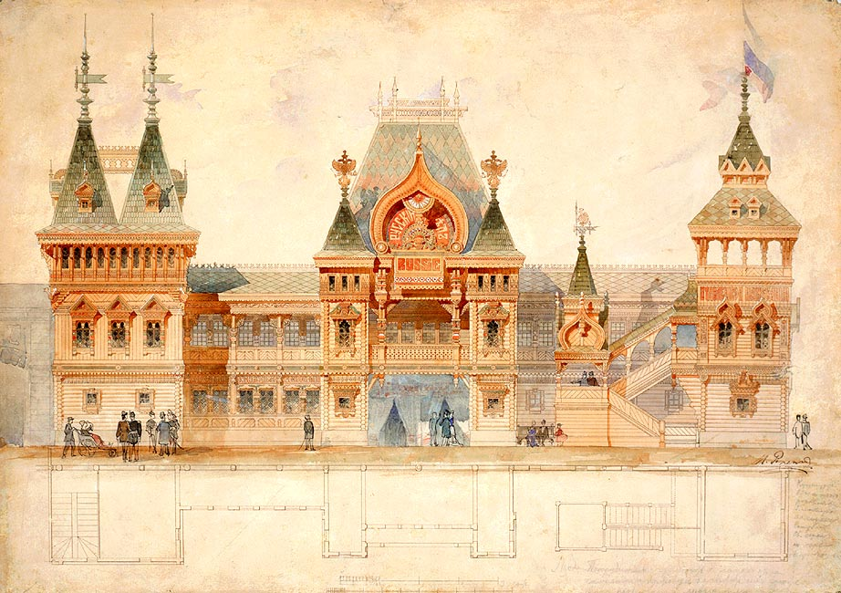 Ivan Ropet's design of the Russian pavilion for the 1878 Exposition Universelle in Paris.